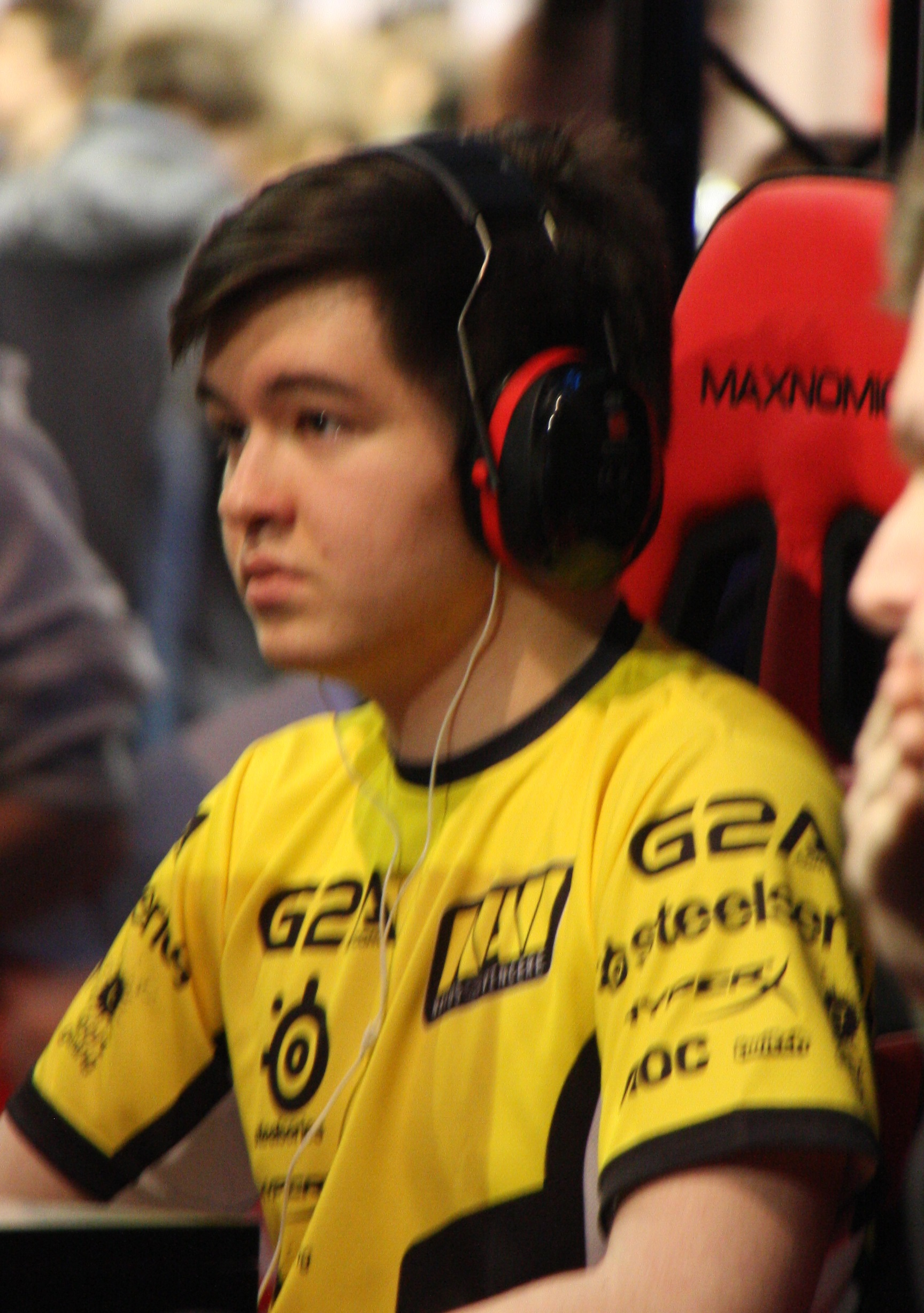 Hearthstone player "Ostkaka" (Sebastian Engwall) at DreamHack Leipzig 2016